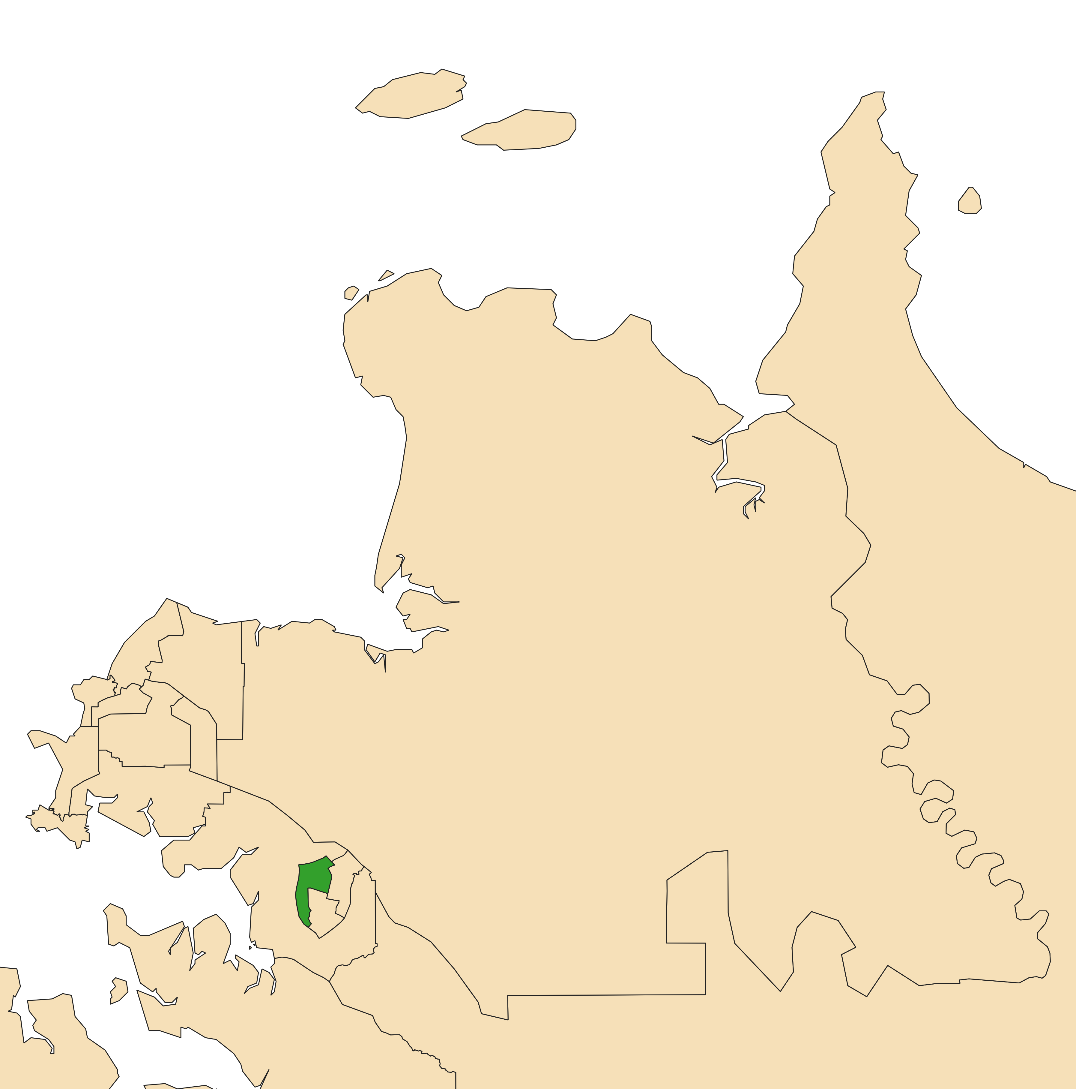 Location of the electoral division of Drysdale (dark green) in the Darwin/Palmerston area of the Northern Territory at the 2020 Northern Territory election